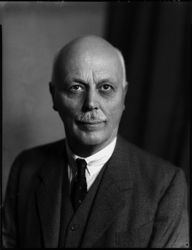 Sir Allan Ross Welsh (1875-1957), Speaker of Legislative Assembly, Southern Rhodesia, 1935-52